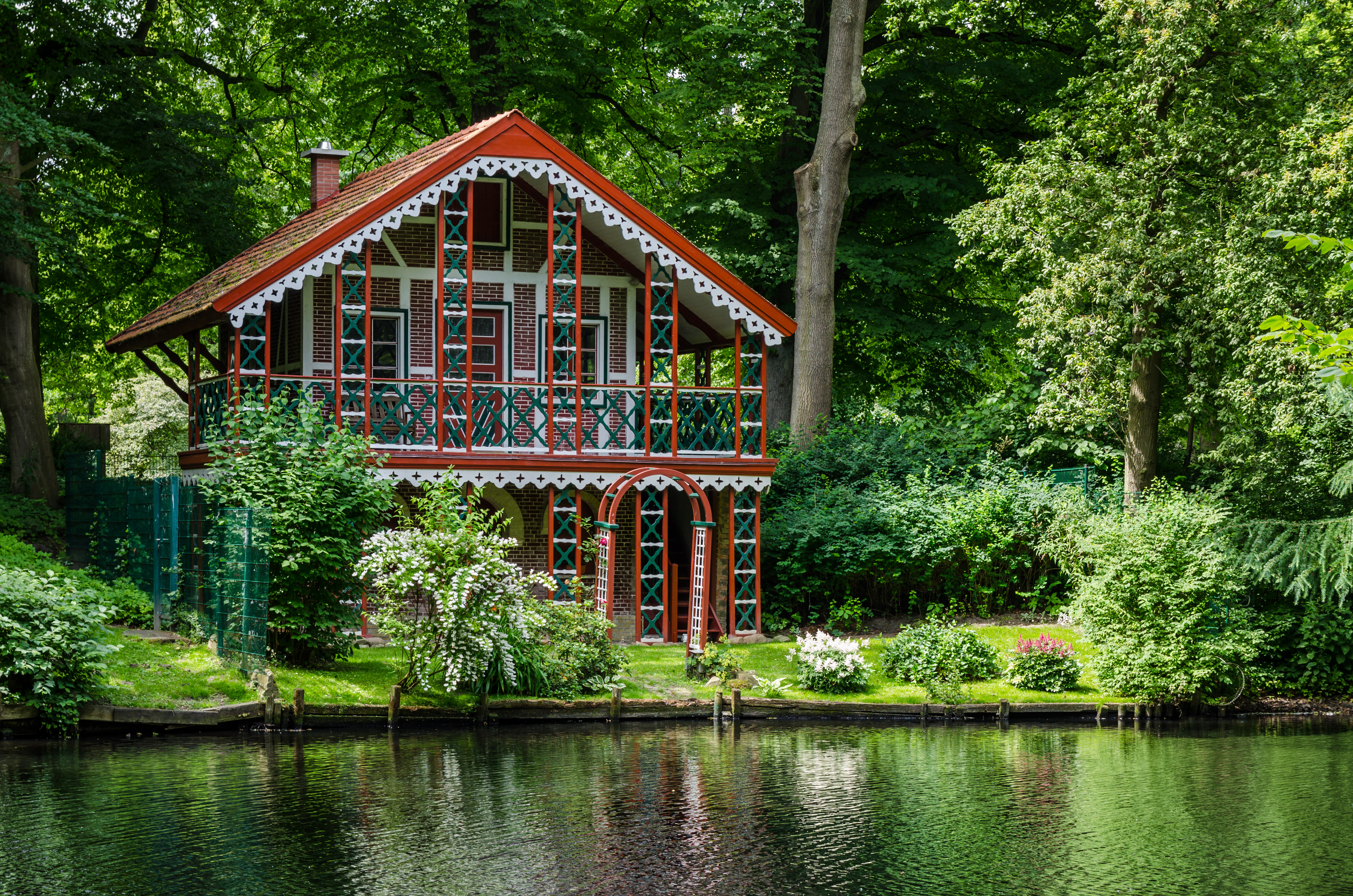 Swiss House ("Schweizerhaus") at palace garden of Ritzenbüttel Castle